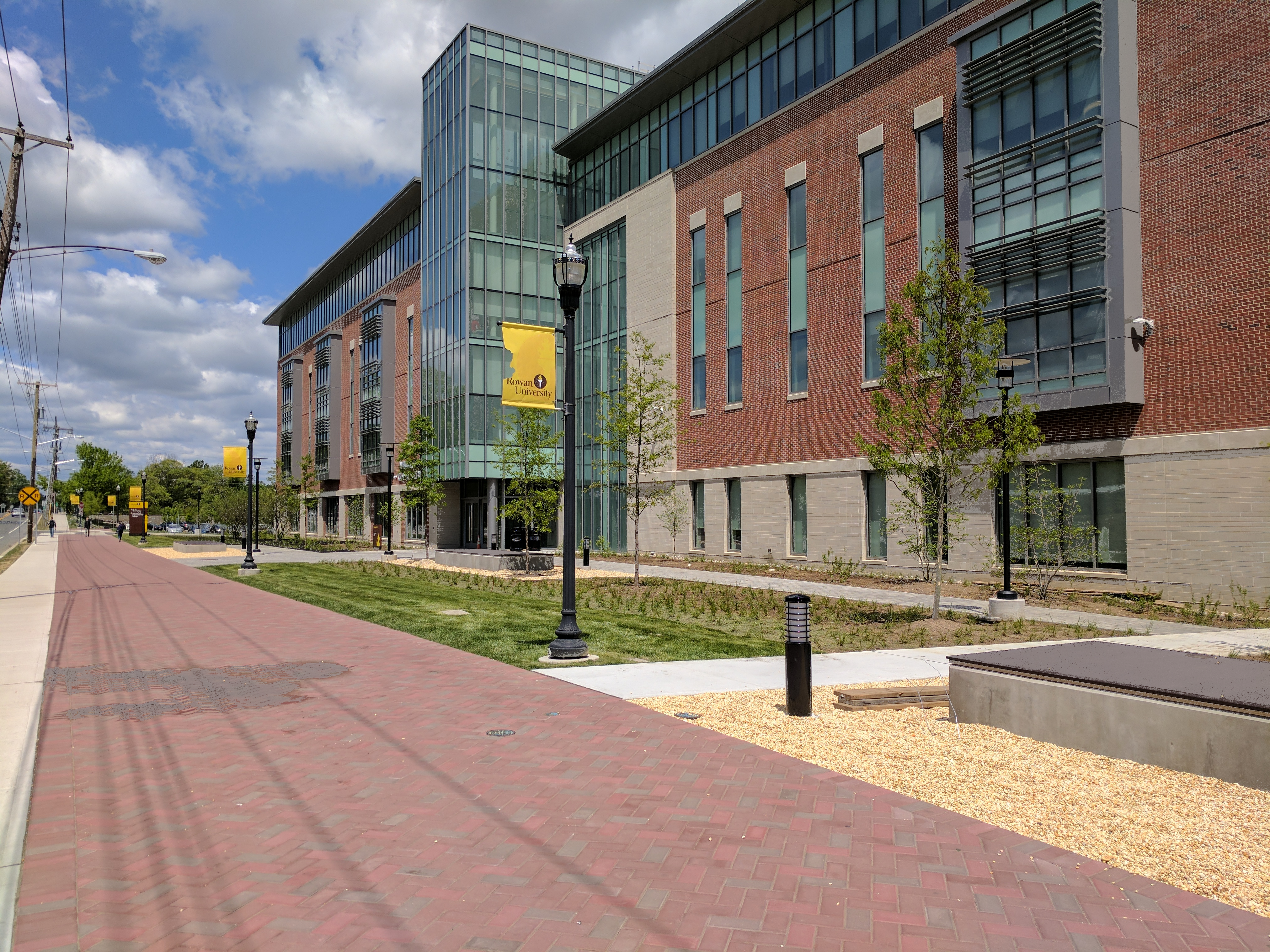 A picture from the corner of Business Hall, home to the Rowan University Roher College of Business.